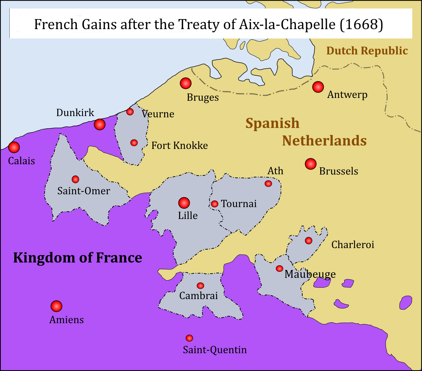 Map showing French gains following the Treaty of Aix-la-Chapelle (1668)